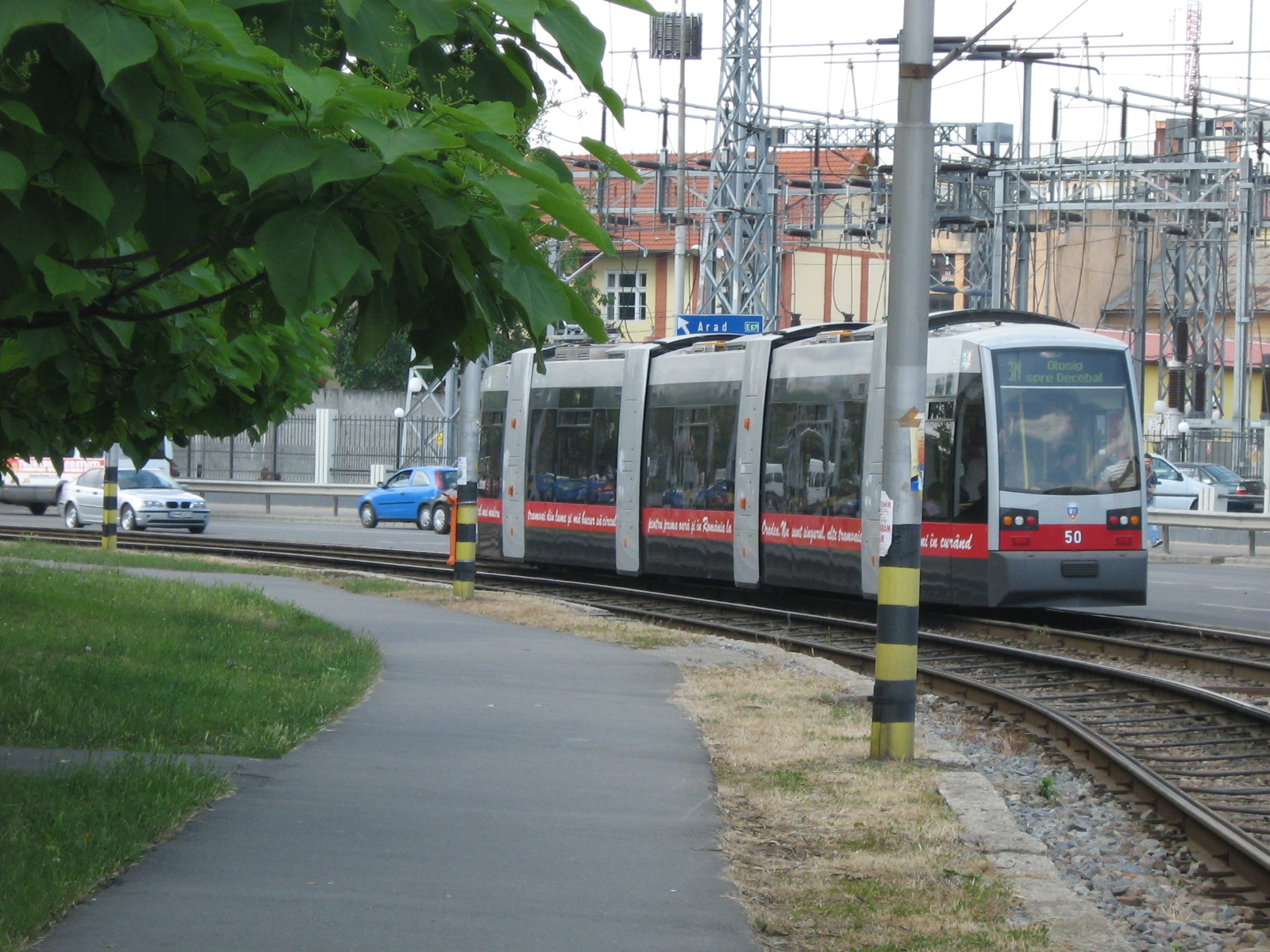 ULF (50) in Oradea, Romania